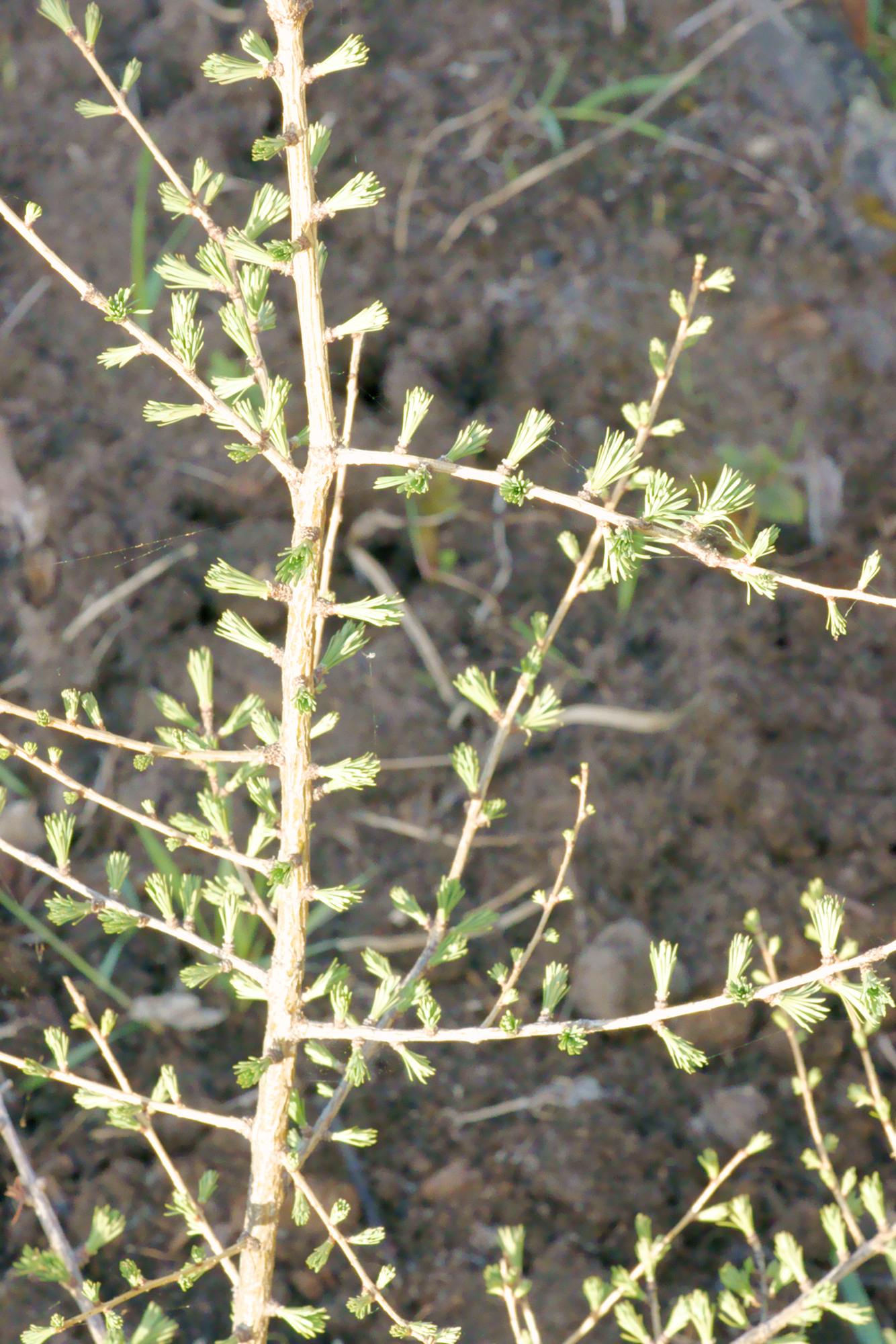 A small Larix sibirica. Such larches grow in the Tyumen Oblast area, Surgut, Russia.